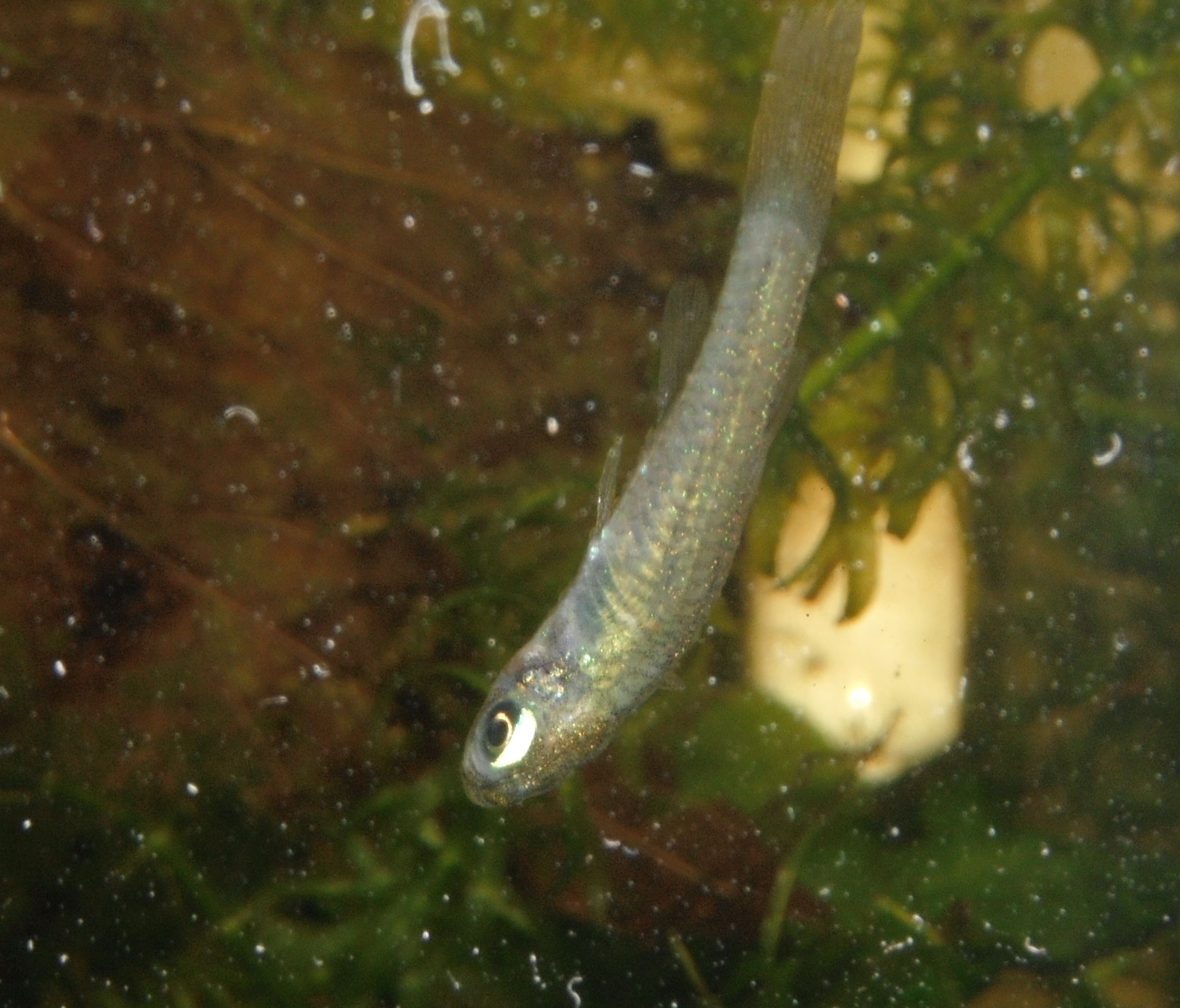 Poropanchax normani (Norman's lampeye) with swim bladder disease. Aquarium fish. Side view.